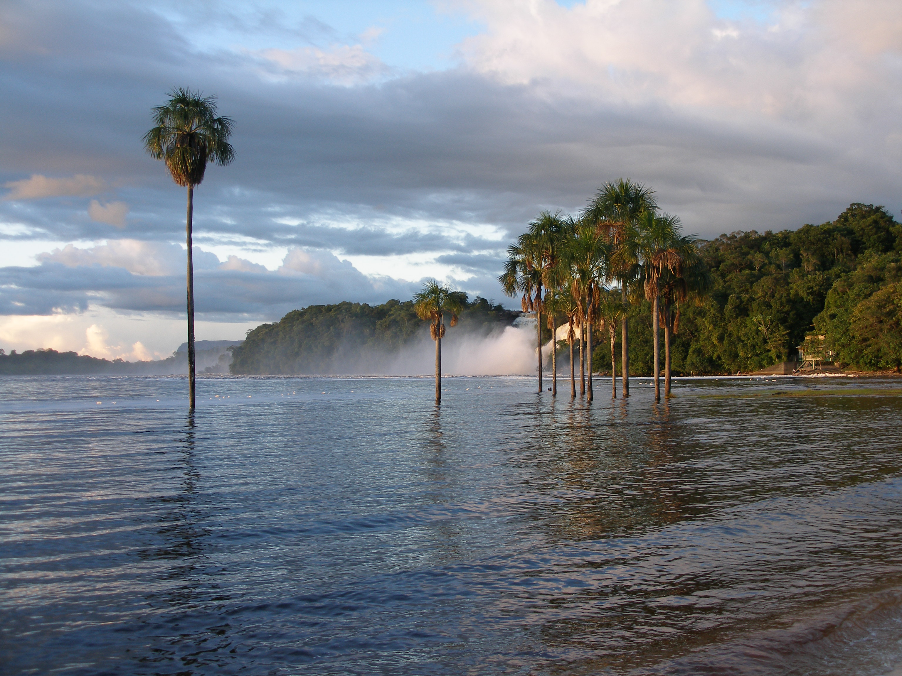 Monoclonal colony